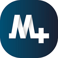 Logo of Mplus